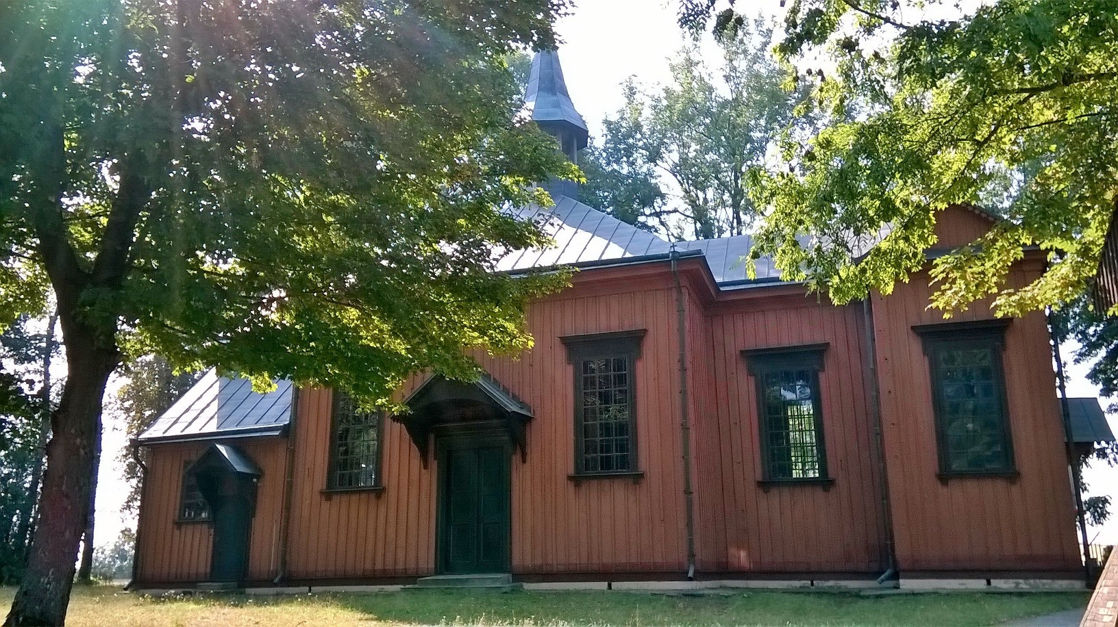 Church in Wiszniów